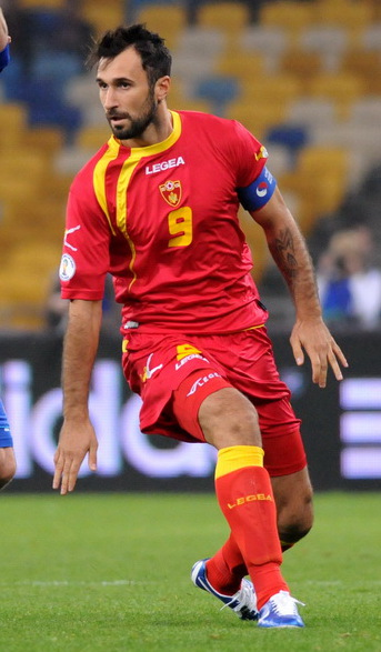 Montenegrin football player Mirko Vučinić during 2014 World Cup qualifier against Ukraine